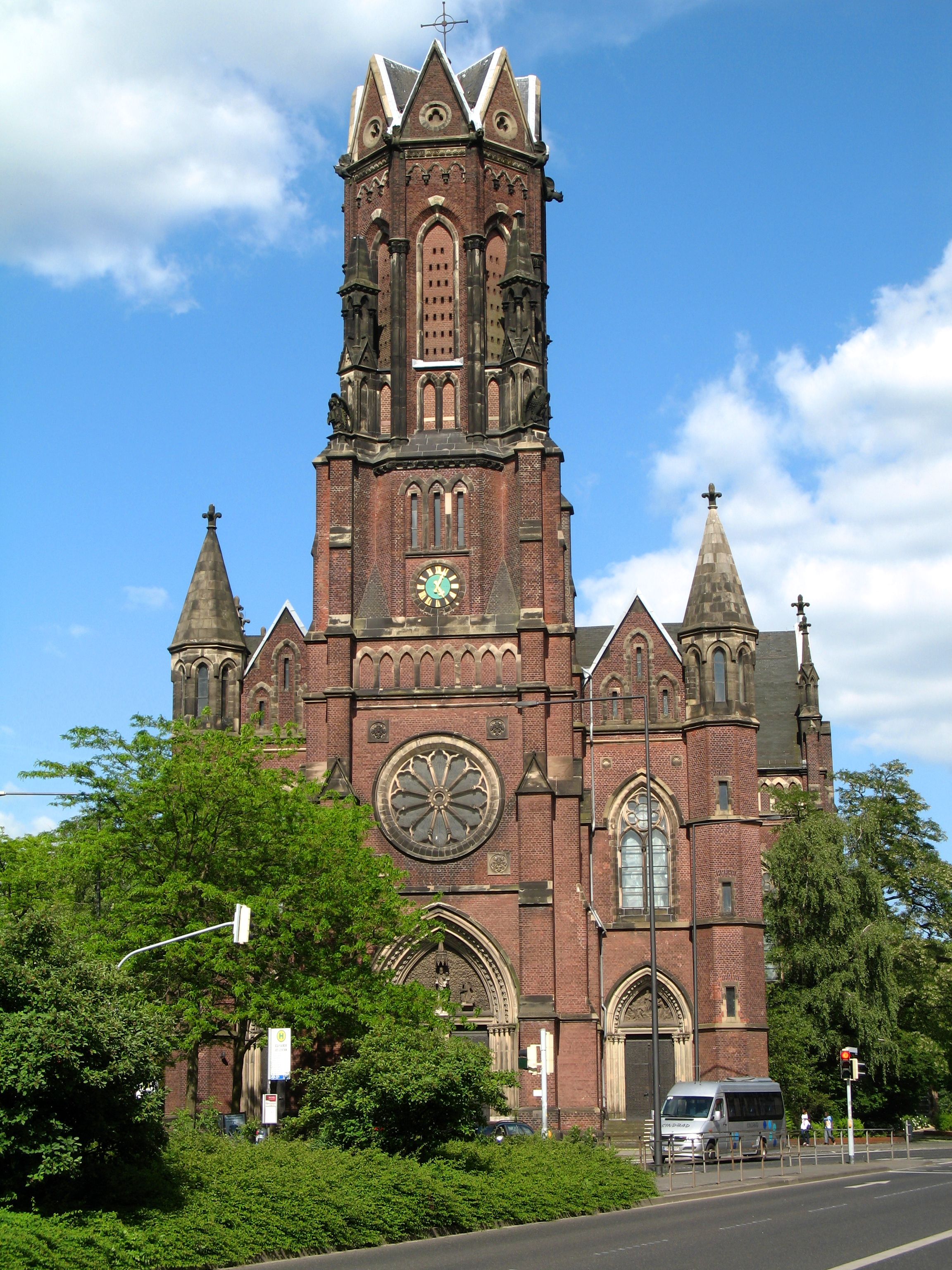 Former catholic St Joseph church in Aachen